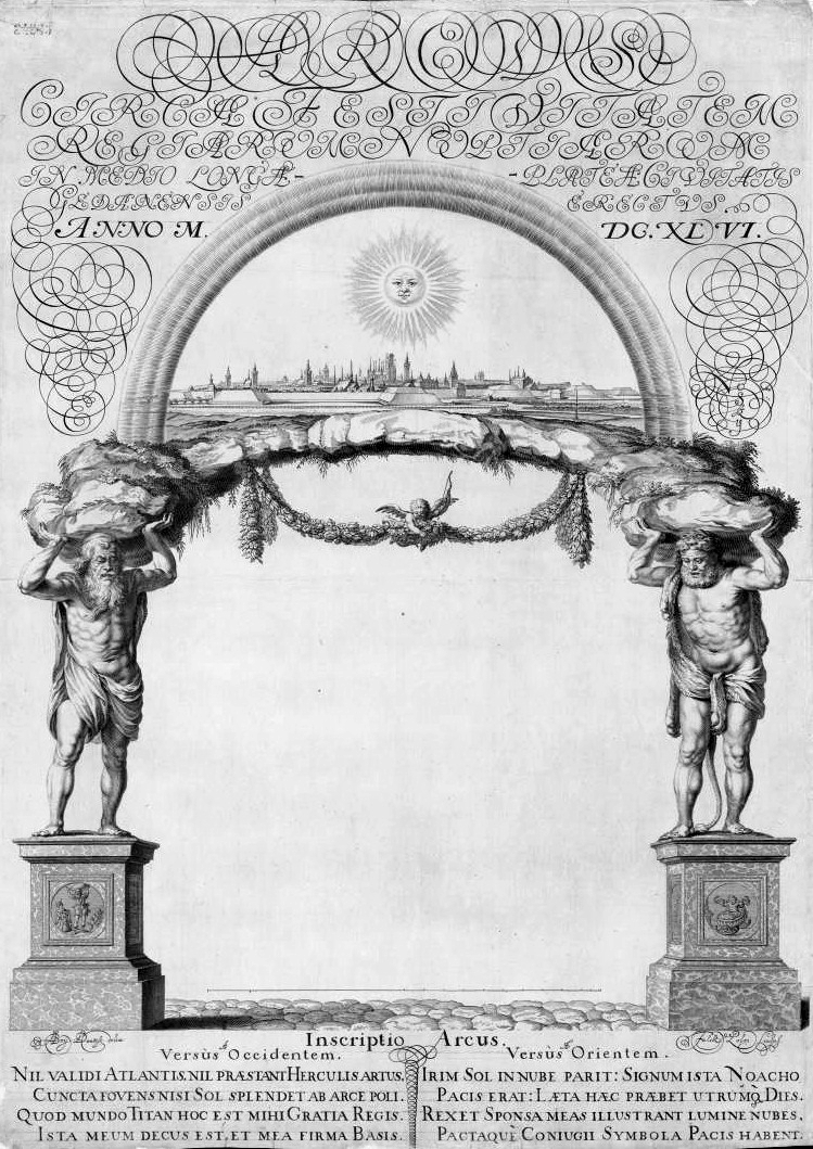 Hercules with the lion skin right